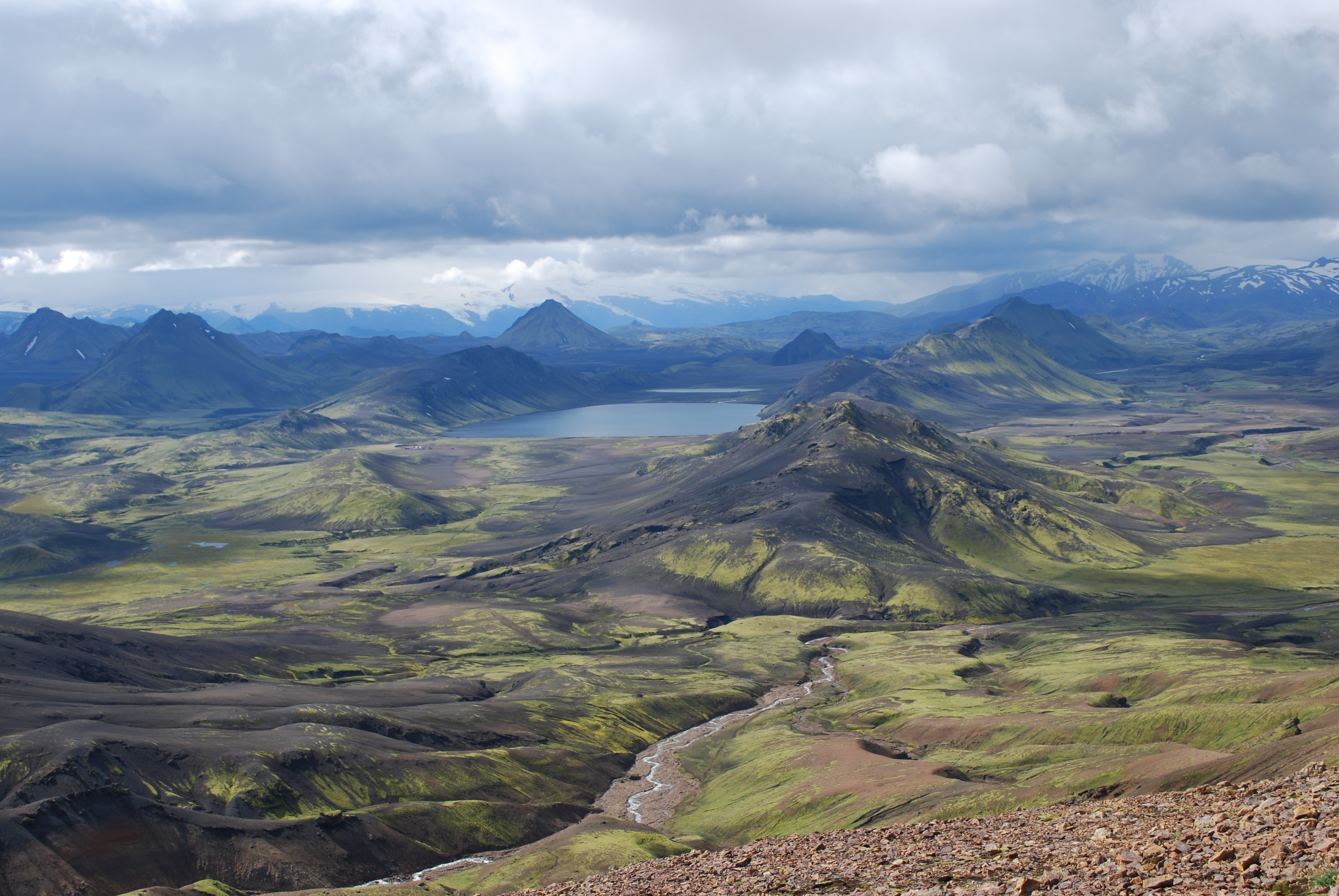 Álftavatn Lake imaged during Laugavegur, Iceland - Google Maps - Google Earth